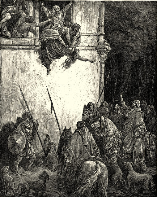 The Death of Jezebel Image corrected in Picasa 2.